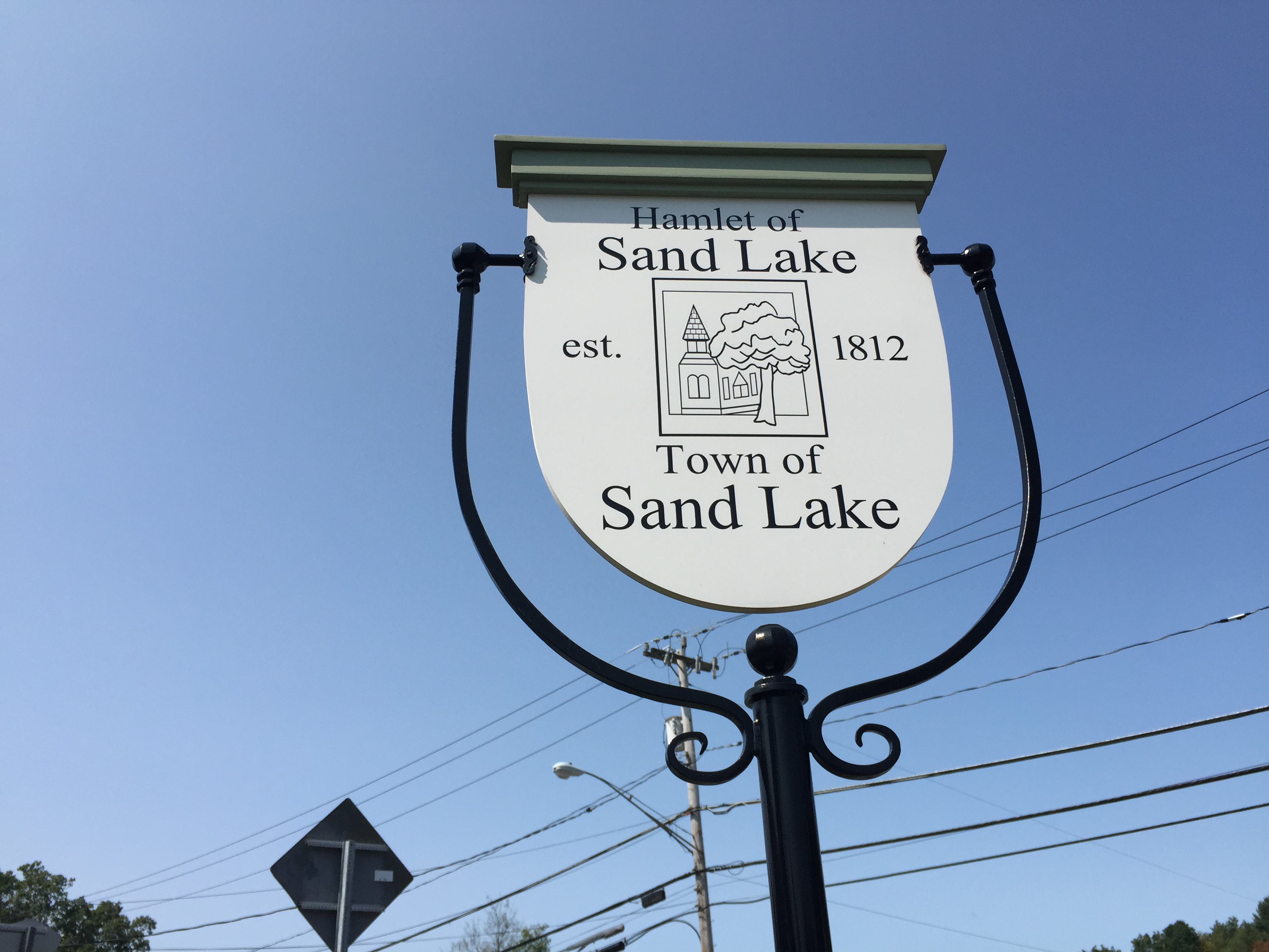 Sign for the Hamlet of Sand Lake in the Town of Sand Lake at the intersection of New York State Route 43 and New York State Route 66 in Sand Lake, Rensselaer County, New York